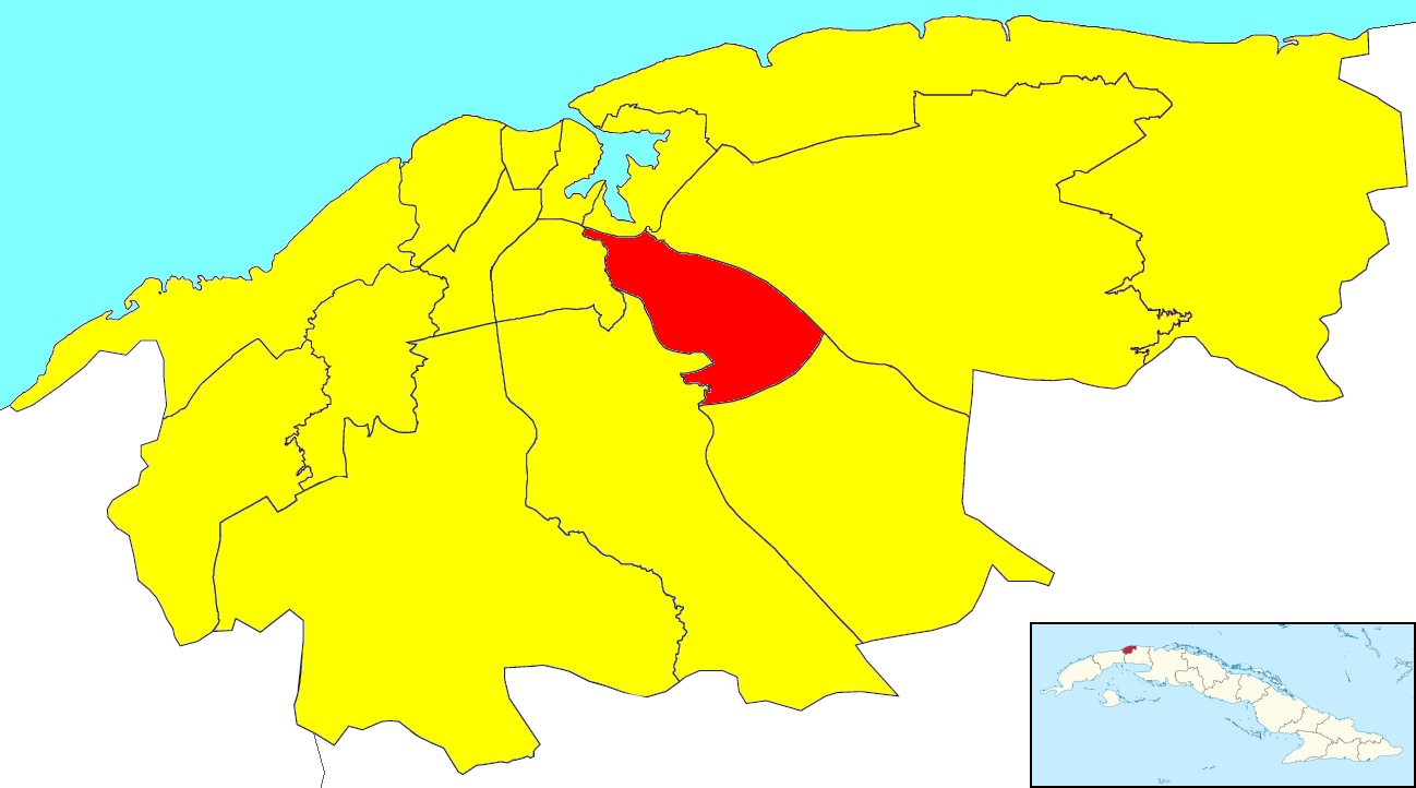 A map of the municipality of San Miguel del Padrón (shown in red) within the city of Havana (yellow). The little Cuban map in the corner shows Havana (dark red) within the island.